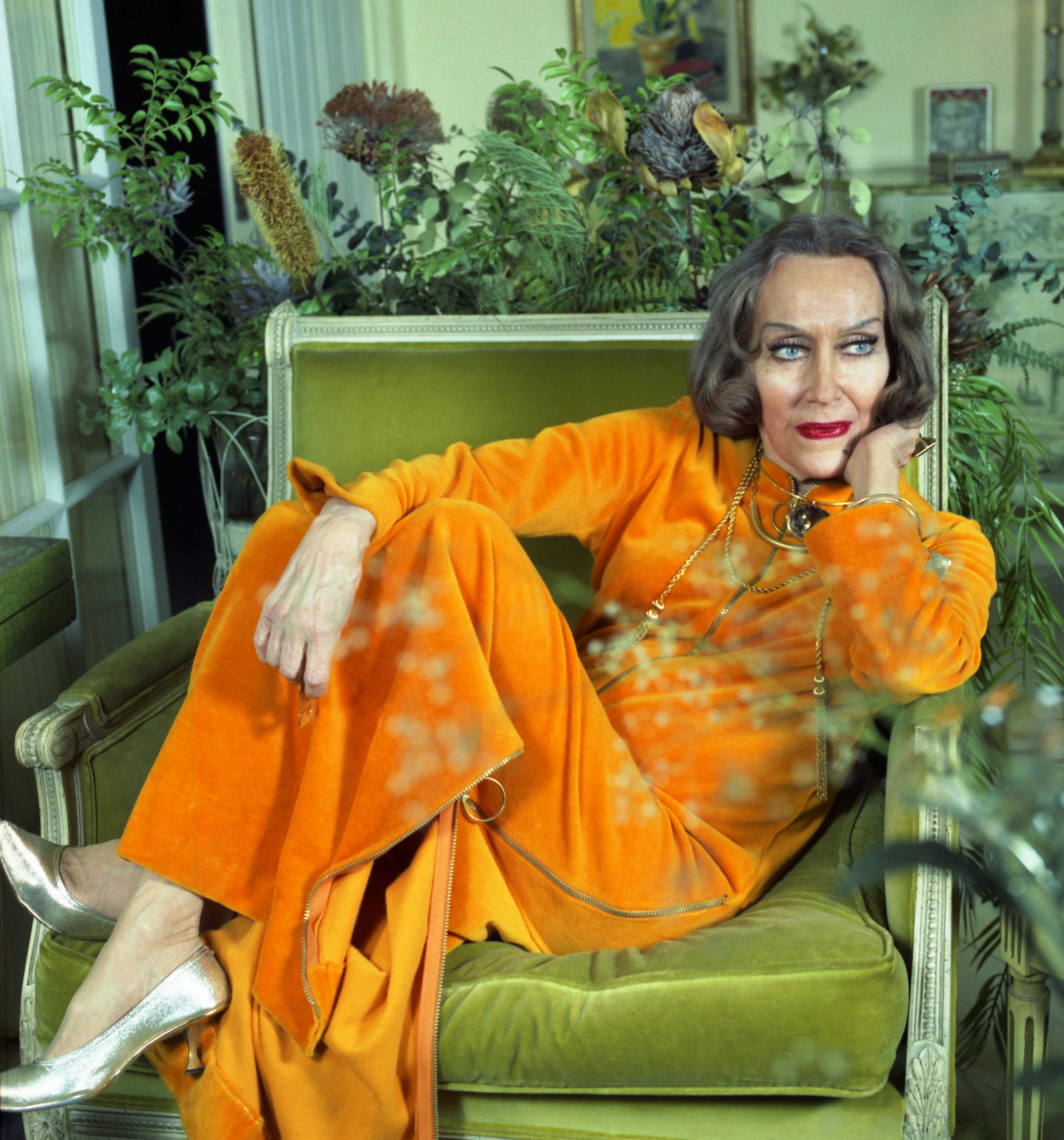 Gloria Swanson taken at her apartment in Manhatten at four in the morning